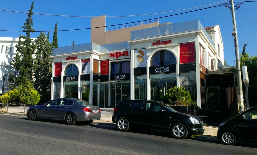 magazia kifisia